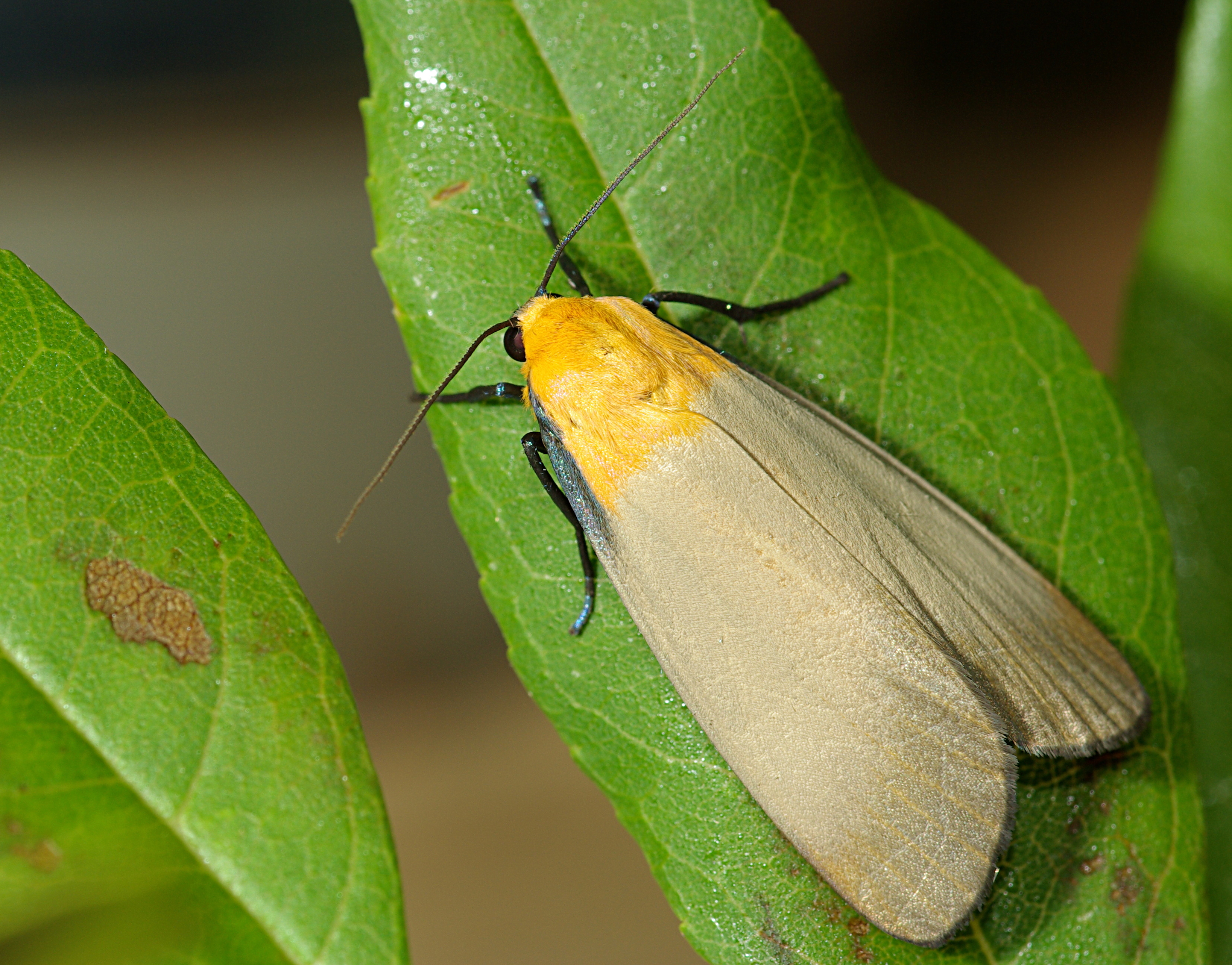 Lithosia quadra mâle taken (on night) in Vendée, French.